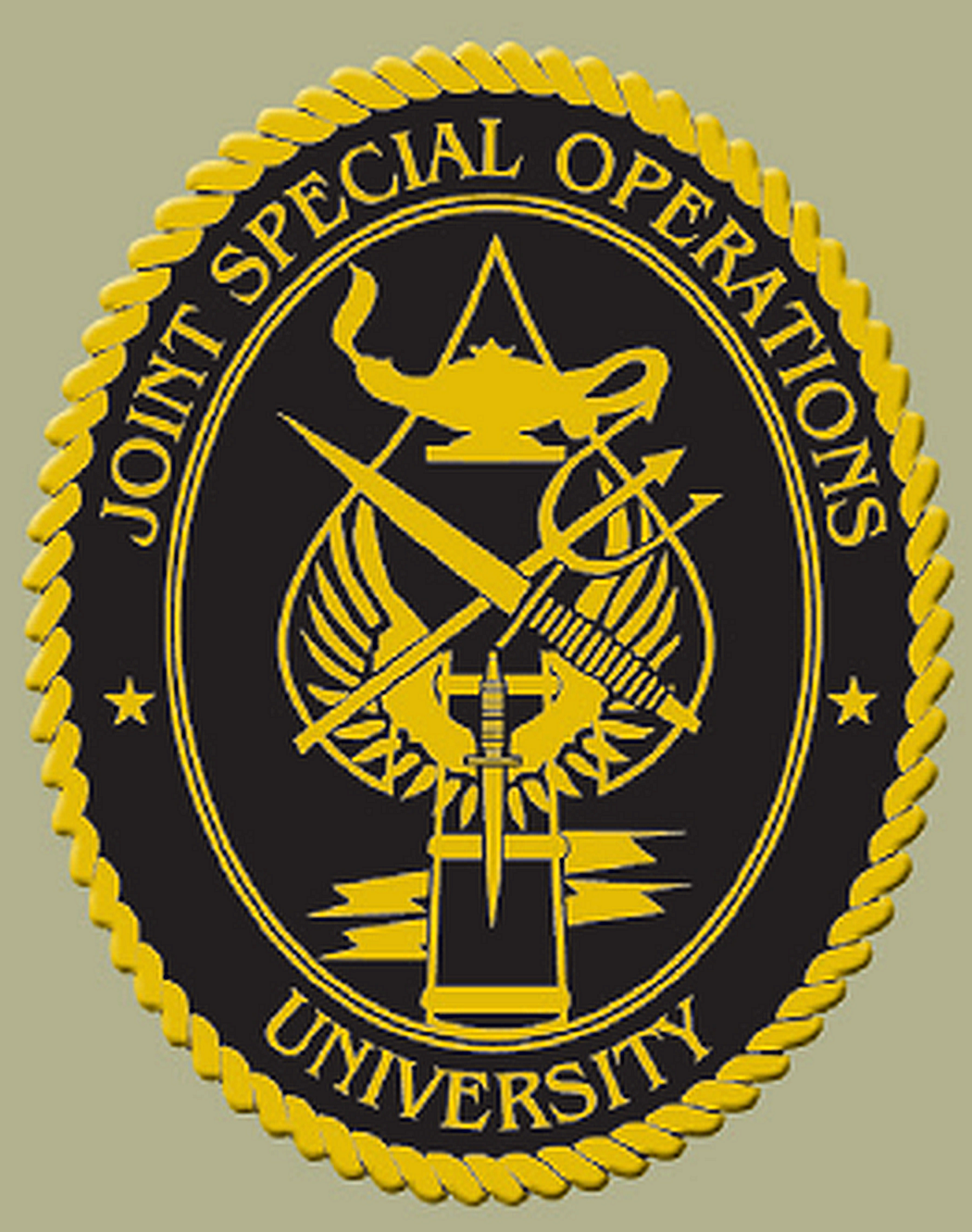 Emblem of the Joint Special Operations University, Florida